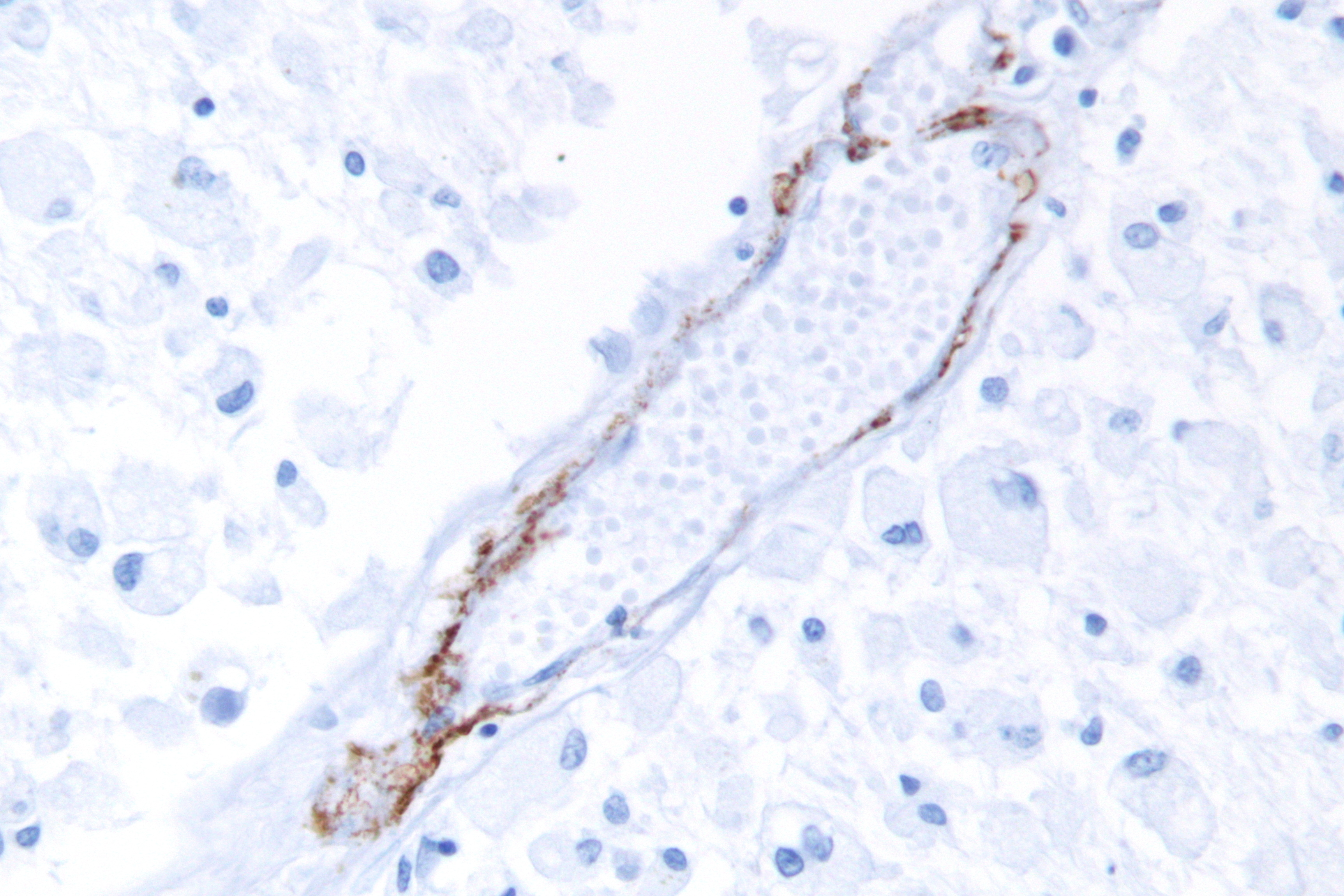 Very high magnification micrograph of cerebral autosomal dominant arteriopathy with subcortical infarcts and leukoencephalopathy (CADASIL). Notch 3 immunohistochemical staining. In CADASIL, the small vessels show a characteristic punctate staining of smooth muscle and pericytes with Notch 3.[1] References ↑ Lesnik Oberstein SA, Jukema JW, Van Duinen SG, et al. (July 2003). "Myocardial infarction in cerebral autosomal dominant arteriopathy with subcortical infarcts and leukoencephalopathy (CADASIL)". Medicine (Baltimore) 82 (4): 251–6. PMID 12861102.